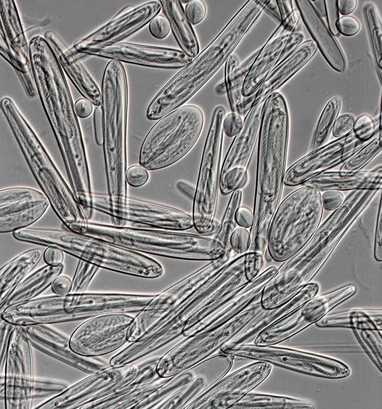 Light microscopy image of nematocysts isolated from Chironex fleckeri tentacles (magnification 400×).